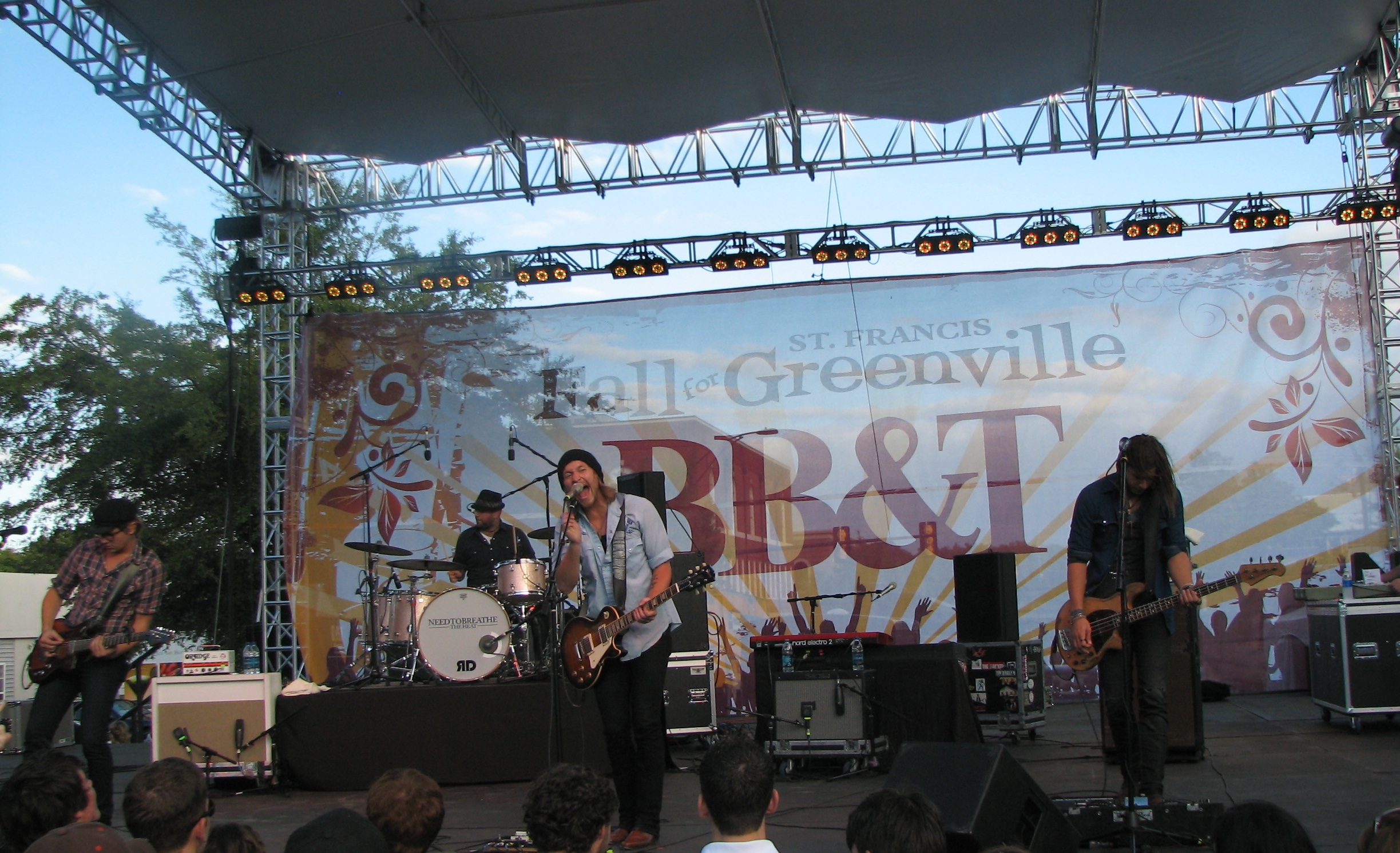 Alt rock band Needtobreathe performing on October 12, 2008 in South Carolina. From left to right: Bo Rinehart, Joe Stillwell, Bear Rinehart, and Seth Bolt.